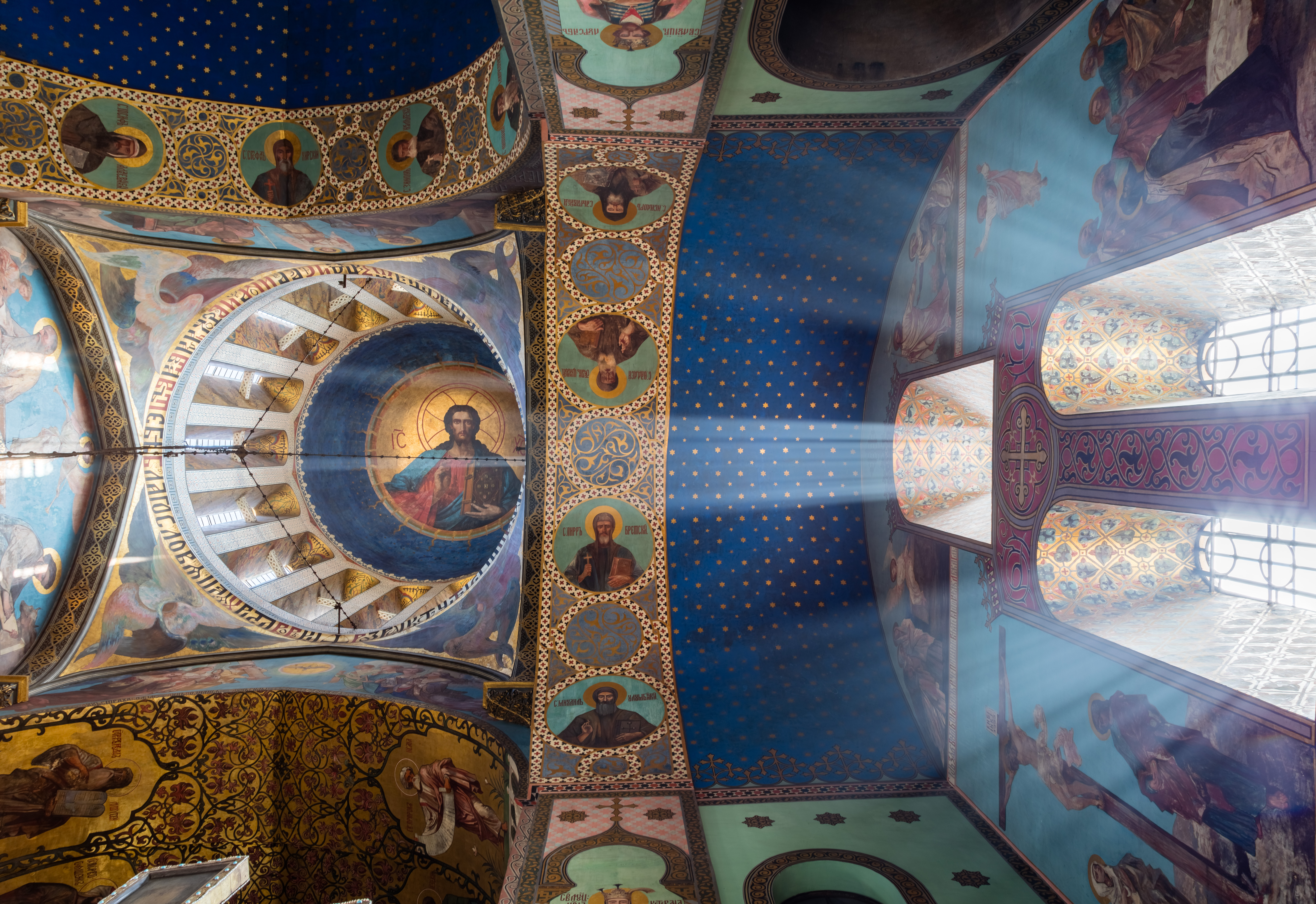 Ceiling of the Sioni Cathedral, a Georgian Orthodox cathedral in Tbilisi, capital of Georgia. The cathedral is situated in historic Sionis Kucha (Sioni Street) in downtown Tbilisi. It was initially built in the 6th and 7th centuries. Since then, it has been destroyed by foreign invaders and reconstructed several times. The current church is based on a 13th-century version with some changes from the 17th to 19th centuries. The Sioni Cathedral was the main Georgian Orthodox Cathedral and the seat of Catholicos-Patriarch of All Georgia until the Holy Trinity Cathedral was consecrated in 2004.